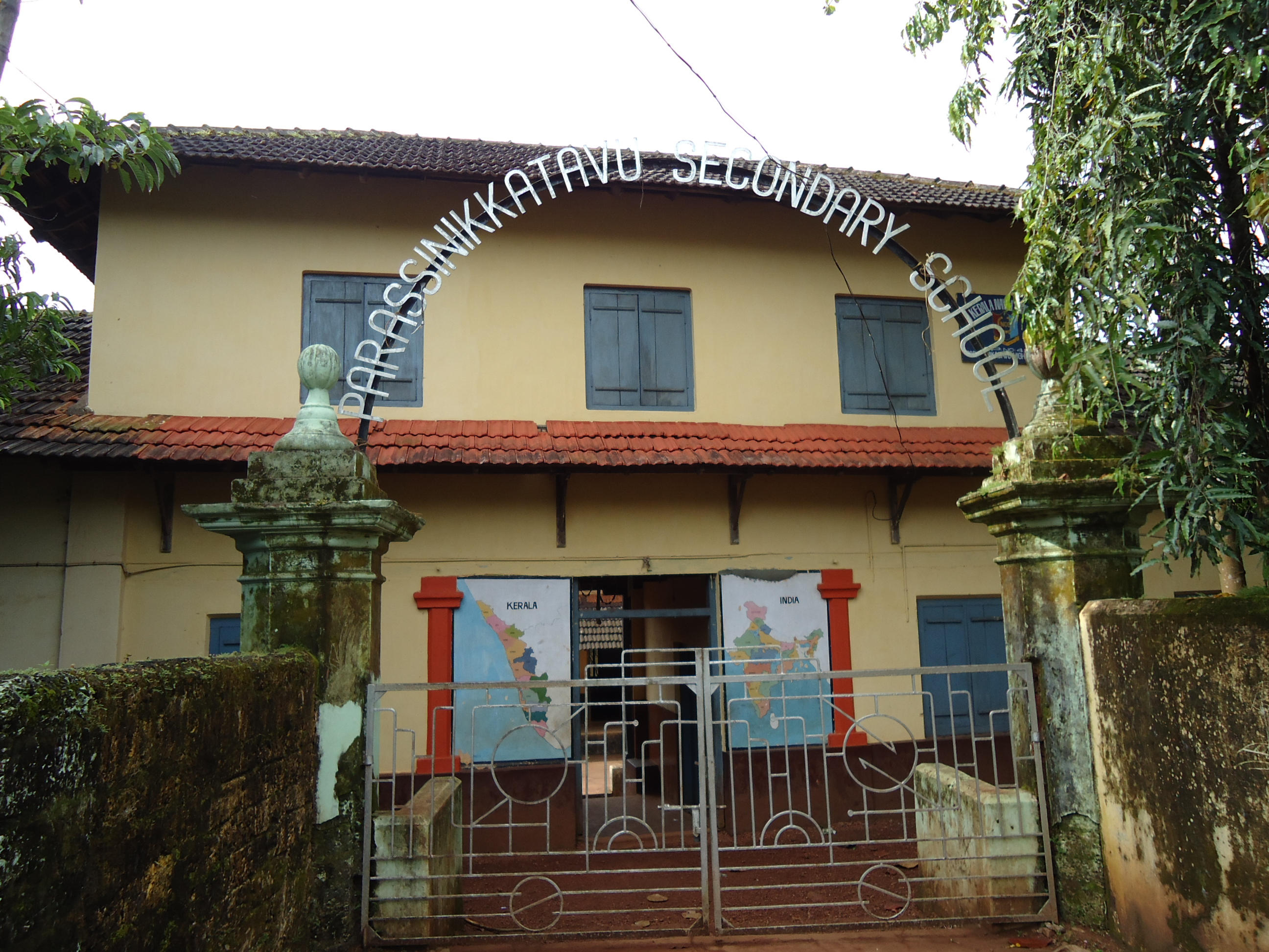 Parassinikadavu Secondary School